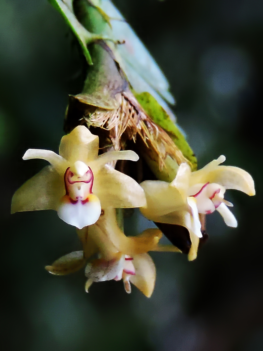 This epiphytic orchid spread from Indo-China to Solomon Island at lowland to intermediate altitude. There are two opinion, one stated that A. stipulatum is accepted name from synonimous A. bicuspidatum, while other stated that those two name are different. But, the valid one refers to A. stipulatum as an accepted name. Seidenfaden originally determined a specimen from Thailand as A. bicuspidatum. Then, corrected into synonym according to the World Checklist.